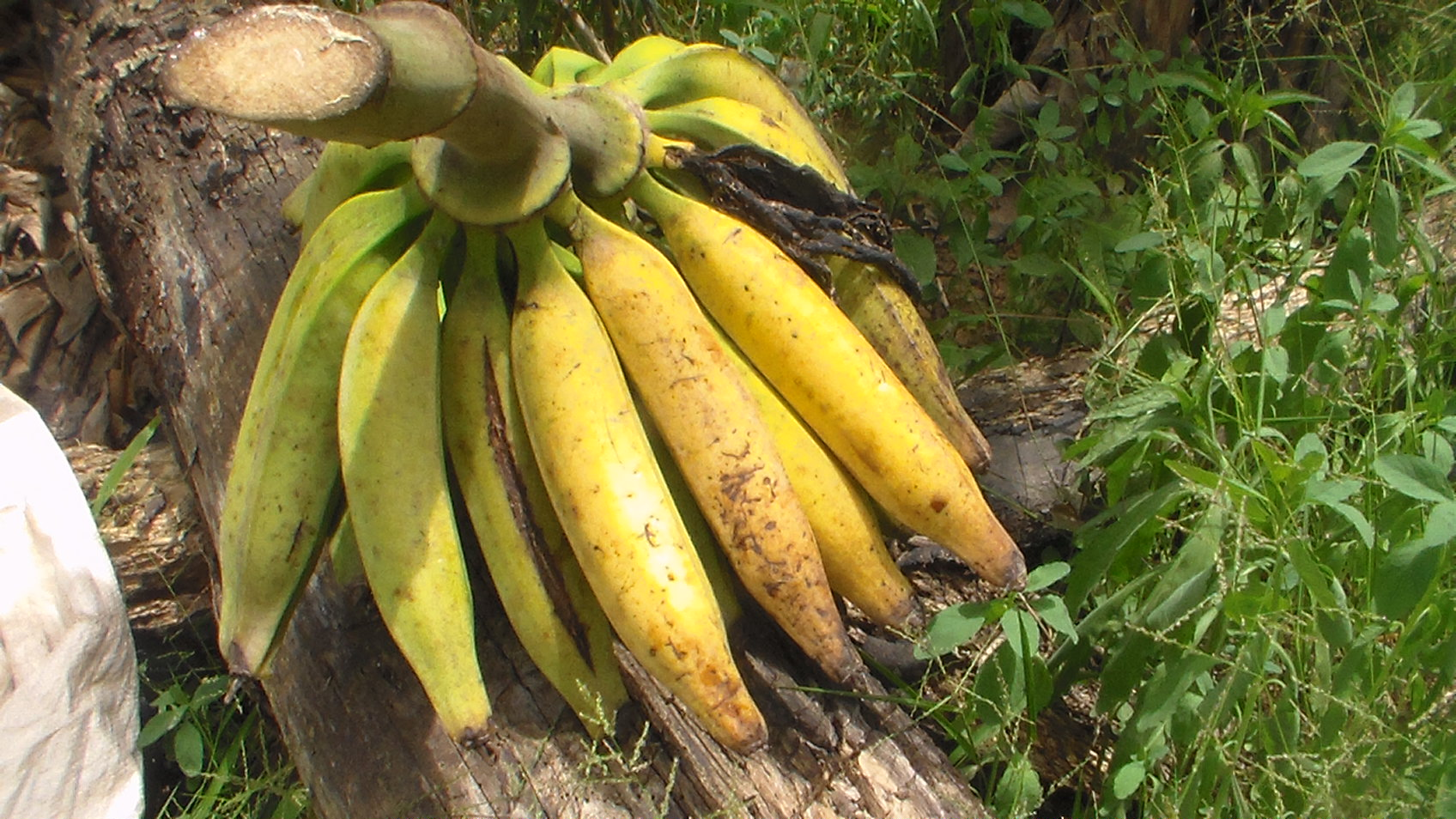 A bunch of Plantain green and ripe mixed This is an image from Liberia